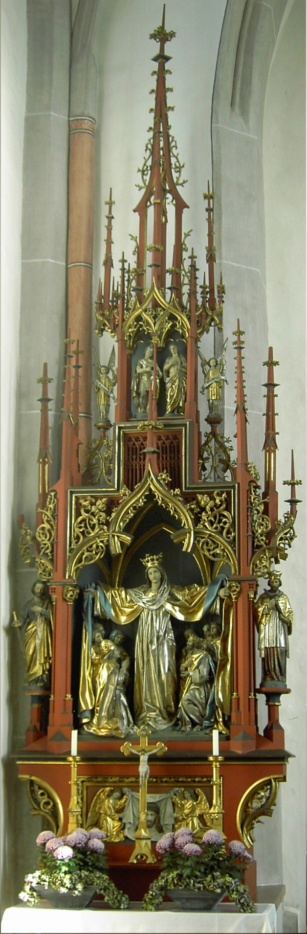 Side altar on the left side of St. John's church in Zolling